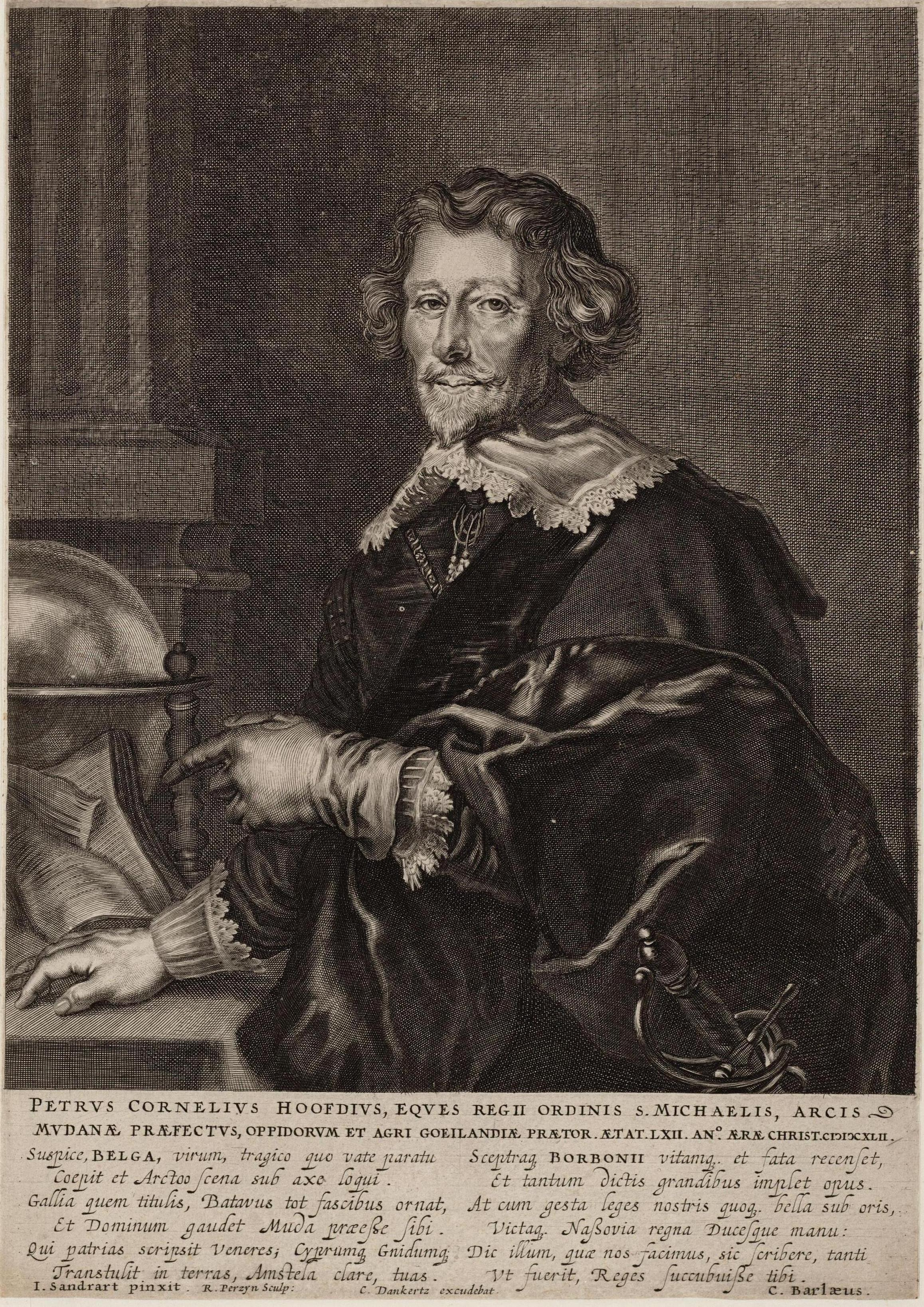 Petrus Cornelius Hoofd (1581-1647), Regent of Muiden, Poet